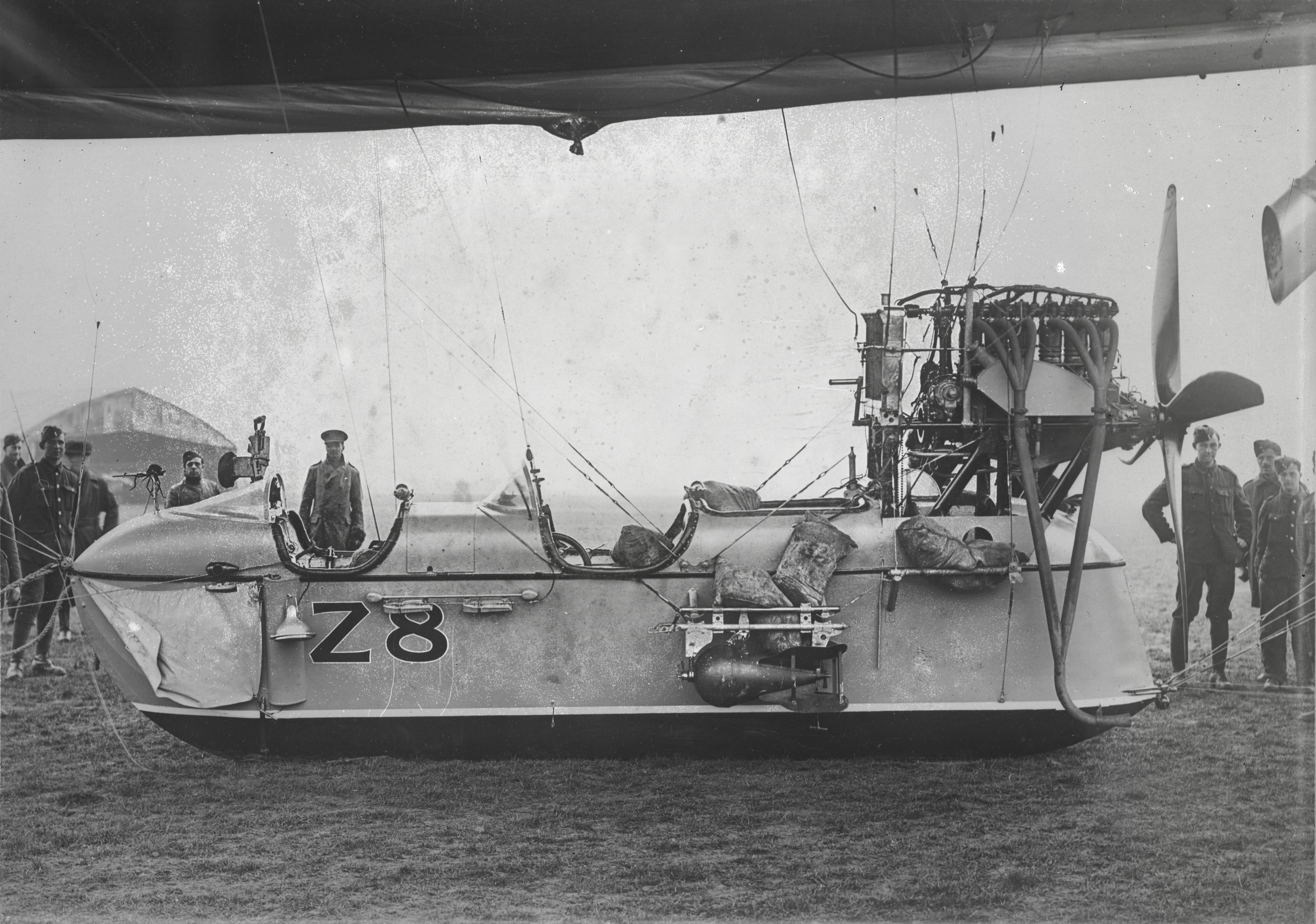 Can anyone identify the airship? Training slide for pilots and mechanics. From the Robert McKenzie fonds, PR1991.0305/18.